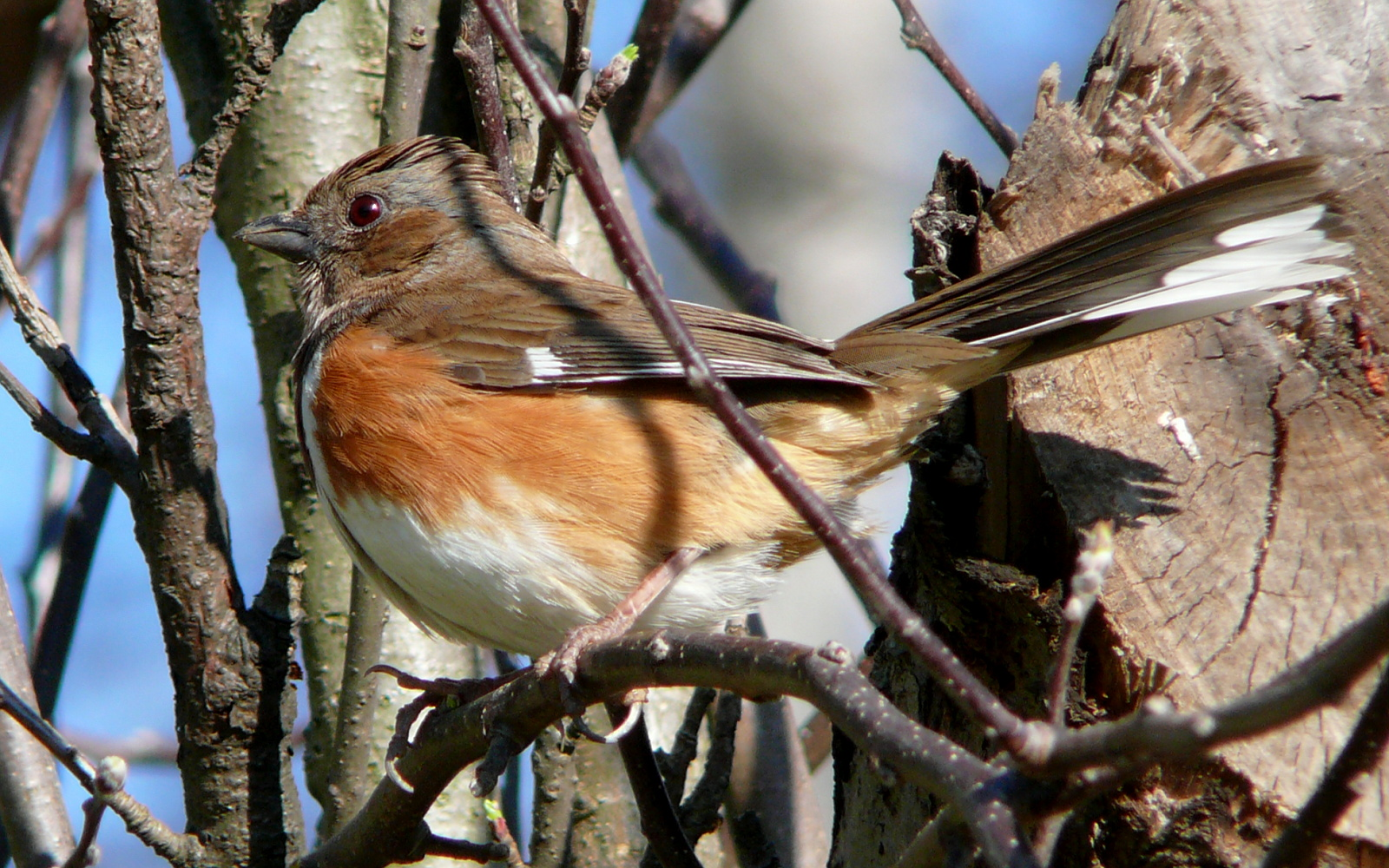 A female Eastern Towhee (Pipilo erythrophthalmus). Photo taken with a Panasonic Lumix DMC-FZ50 in Caldwell County, North Carolina, USA.